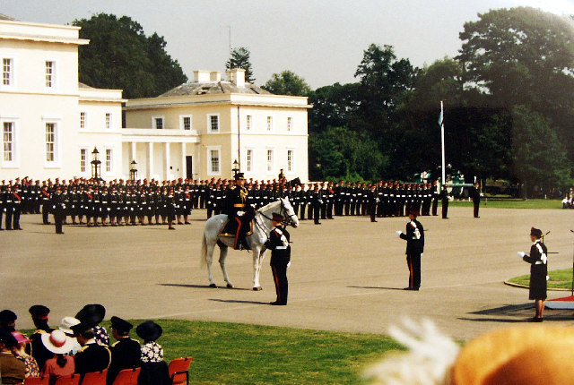 Sandhurst Royal Military Academy. Graduation Day: Passing Out Parade for another batch of newly qualified young officers. At The Old College Parade Ground. Aerial